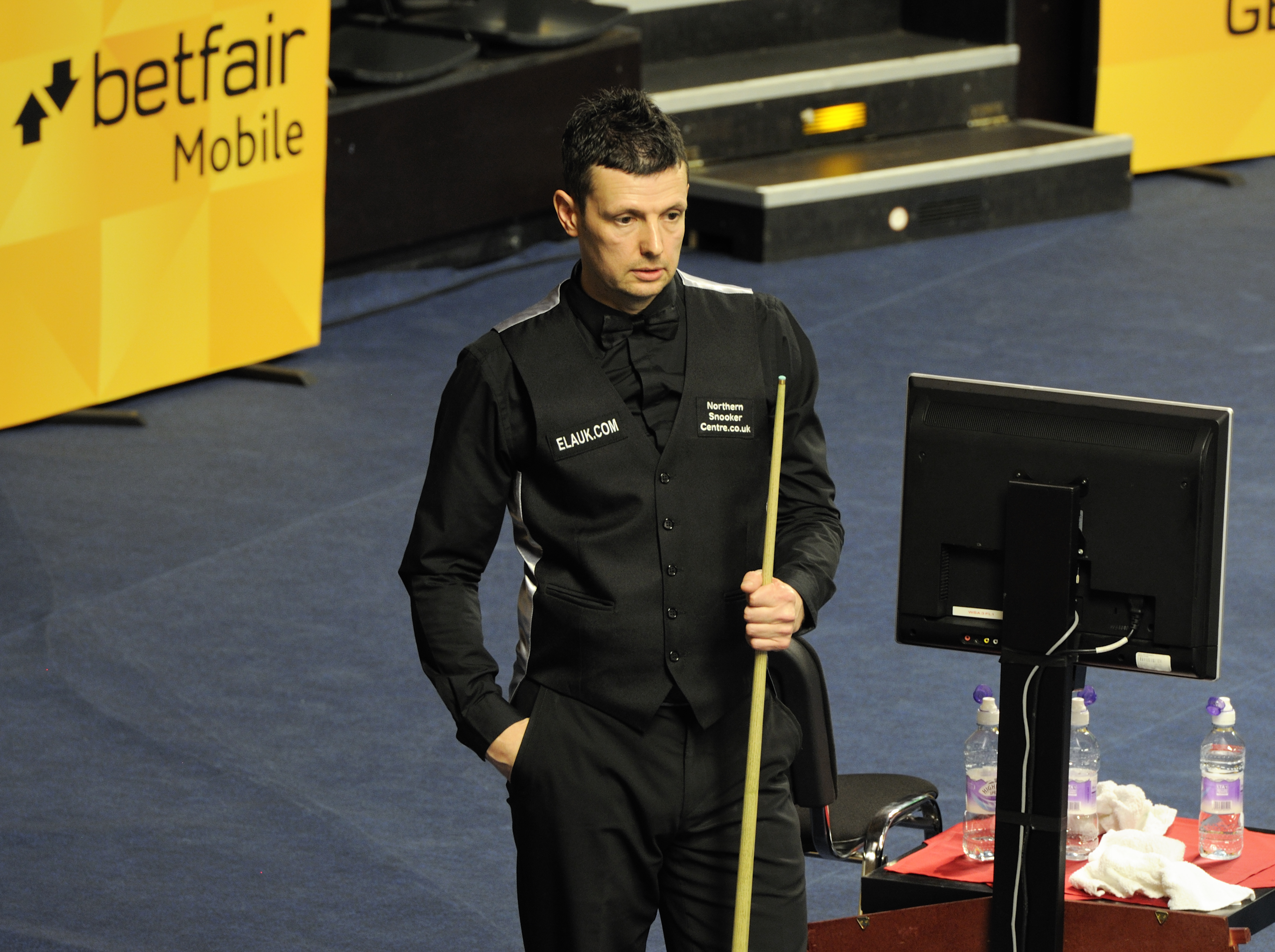 Picture taken in Berlin during the Snooker German Masters in 2013. Peter Lines.